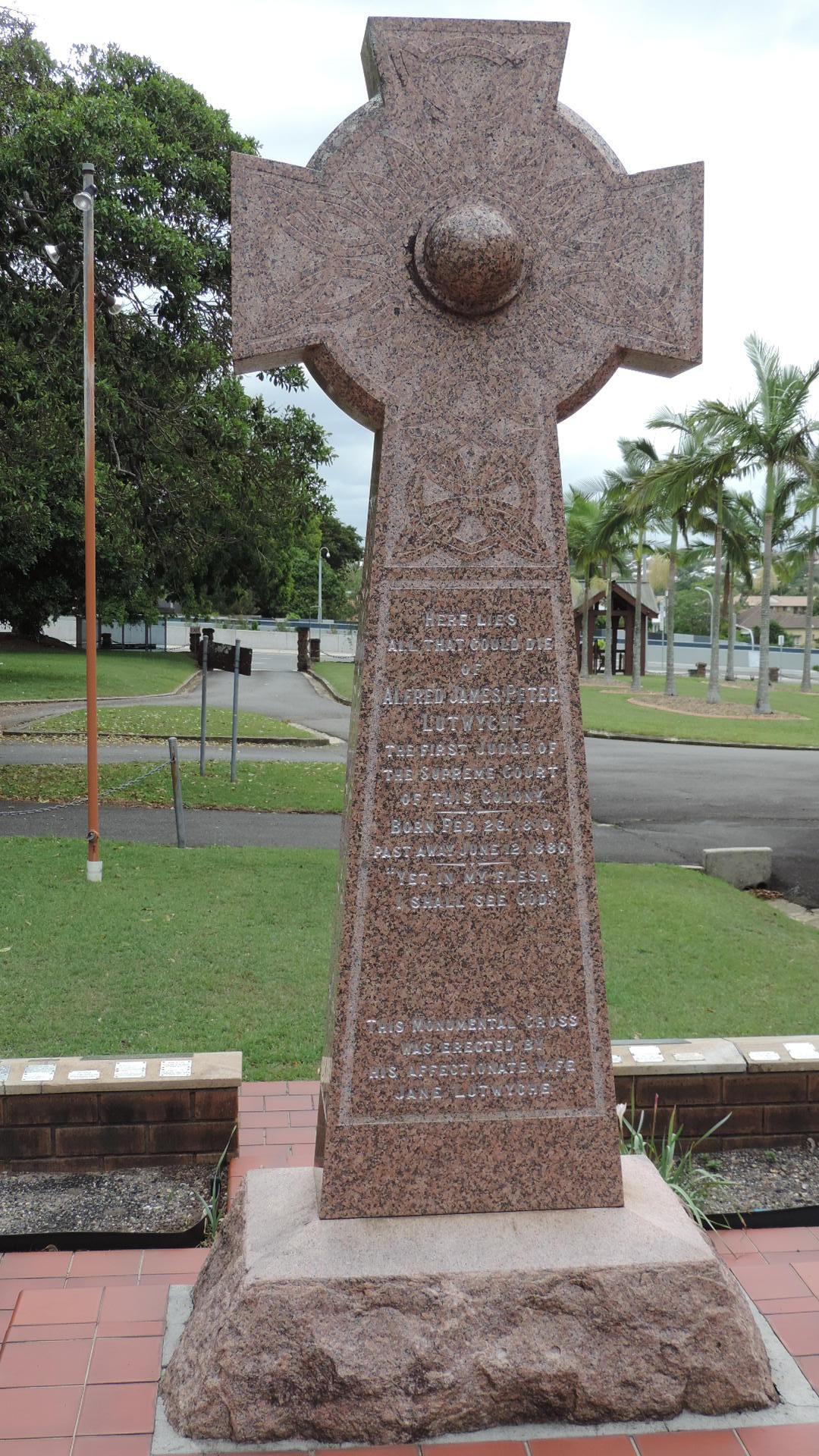 Monumental cross for Alfred James Peter Lutwyche, at St Andrews Anglican Church, Lutwyche, Brisbane, 2014